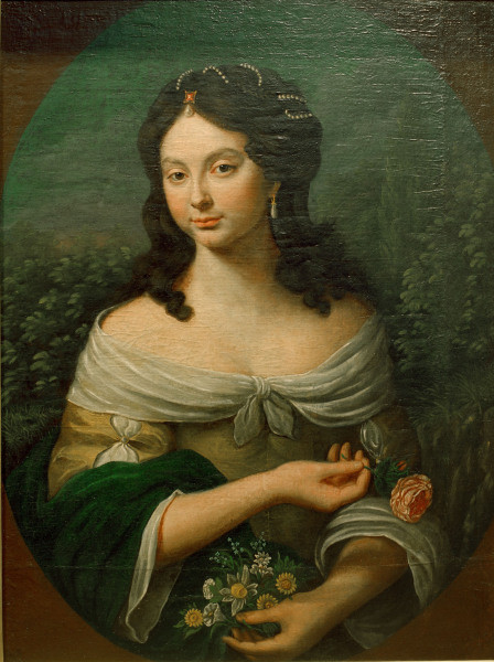 Luise, Gräfin von Degenfeld